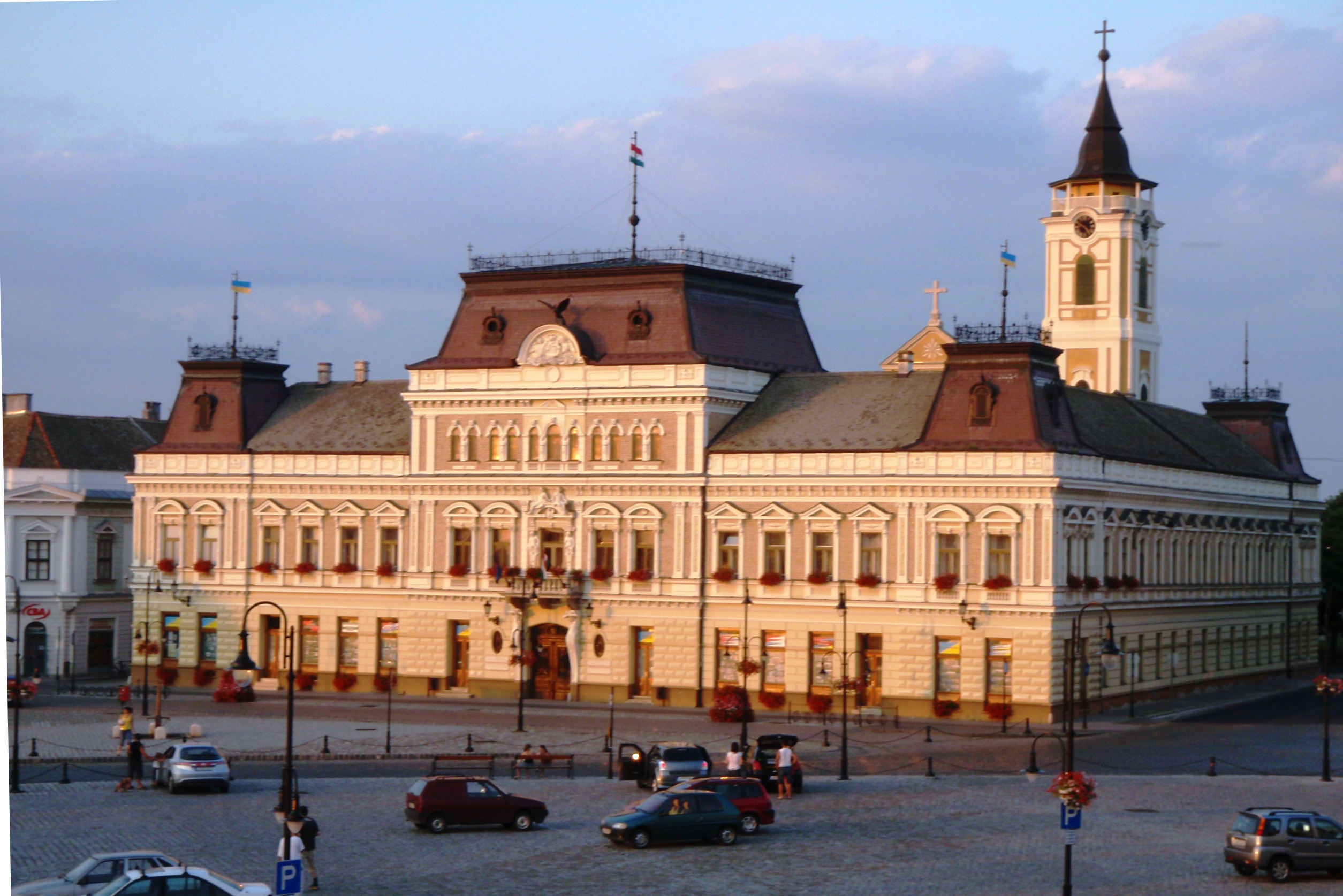 Baja in Hungary, the town hall